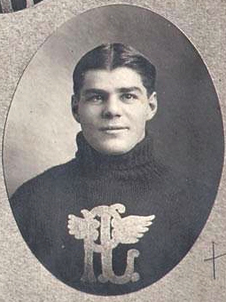 Ice hockey player Fred Lake of the 1906–07 Portage Lakes Hockey Club.